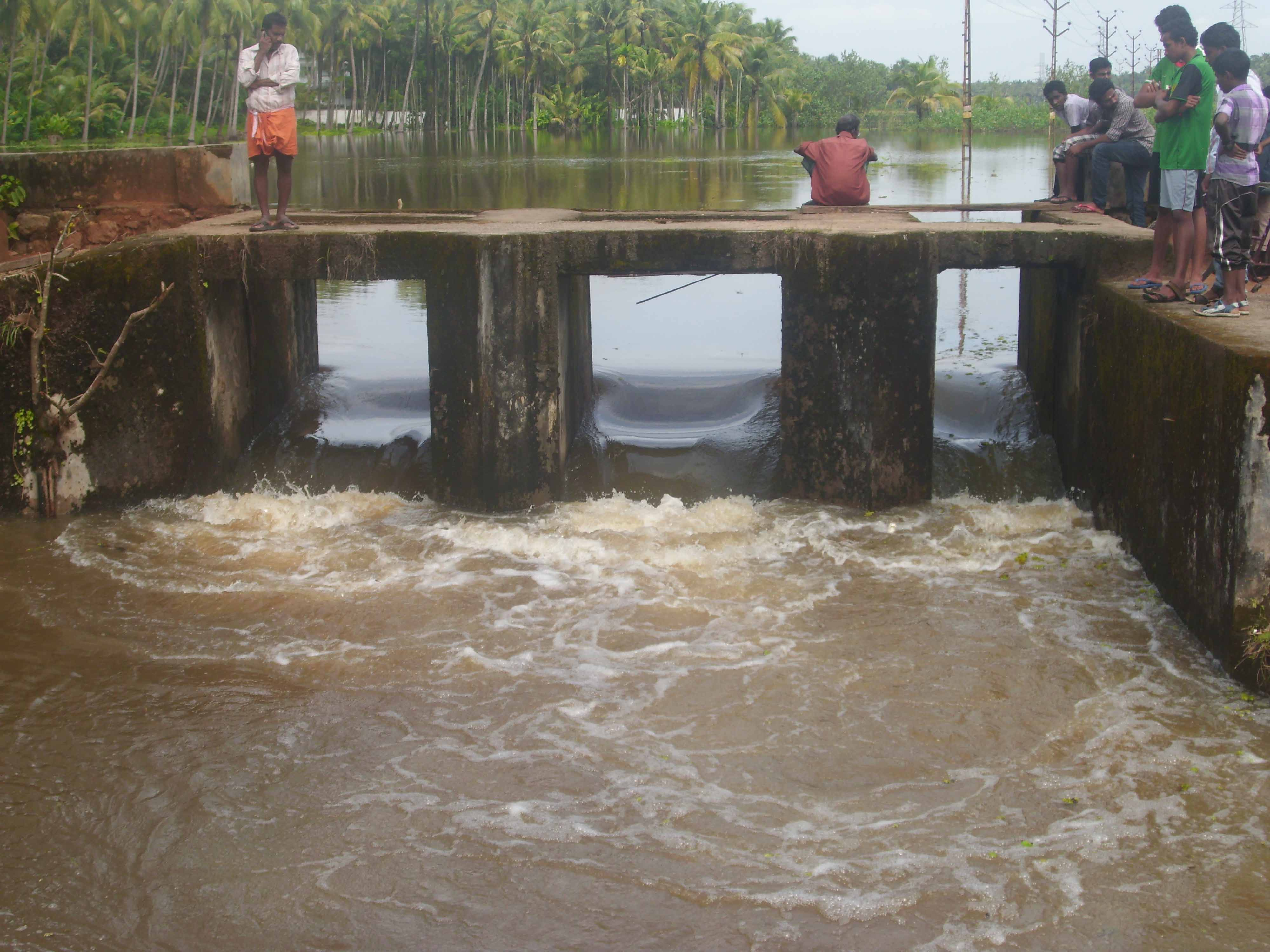 This is the only one place in the world where "SETHUBANDHAN" conducts in the memory of those in "RAMAYAN"